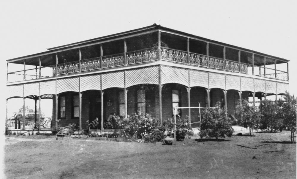 Residence in St. George known as The Anchorage